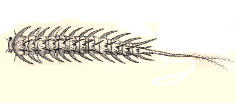 See image for index to numbers. # Brychius elevatus Panz. = Brychius elevatus (Panzer, 1794), adult, dorsal view # Haliplus mucronatus Steph. = Haliplus mucronatus Stephens, 1828, adult, dorsal view # [Haliplus] variegatus Strm. = Haliplus variegatus Sturm, 1834, adult, dorsal view # [Haliplus] fulvus F. = Haliplus fulvus (Fabricius, 1801) (4a: larva, dorsal view, 4b: adult, dorsal view, 4c: adult, ventral view with left legs removed, 4d: head of adult, dorsal view, 4e: antenna of adult, 4f: labrum of adult, 4g: mandible of adult, 4h: maxilla of adult, 4i: labium of adult) # [Haliplus] flavicollis Strm. = Haliplus flavicollis Sturm, 1834, adult, dorsal view # [Haliplus] laminatus Schall. = Haliplus laminatus (Schaller, 1783), adult, dorsal view # [Haliplus] ruficollis Degeer. = Haliplus ruficollis (De Geer, 1774), adult, dorsal view # [Haliplus] fluviatilis Aubé. = Haliplus fluviatilis Aubé, 1836, adult, dorsal view # [Haliplus] lineatocollis Mrsh. = Haliplus lineatocollis (Marsham, 1802), adult, dorsal view # [Haliplus] amoenus Oliv. = Haliplus obliquus (Fabricius, 1787), adult, dorsal view # [Haliplus] confinis Steph. = Haliplus confinis Stephens, 1828, adult, dorsal view # Cnemidotus caesus Dft. = Peltodytes caesus (Duftschmid, 1805) , adult, dorsal view # [Cnemidotus] rotundatus Aubé. = Peltodytes rotundatus (Aubé, 1836), adult, dorsal view # Hygrobia tarda Hrbst. = Hygrobia hermanni (Fabricius, 1775) (14a: larva, lateral view, 14b: pupa, dorsal[verification needed] view, 14c: adult, dorsal view, 14d: head of adult, dorsal view, 14e: antenna of adult, 14f: labrum of adult, 14g: mandible of adult, 14h: maxilla of adult, 14i: labium of adult, ventral (left[verification needed]) and dorsal view, 14k: foreleg of adult male)